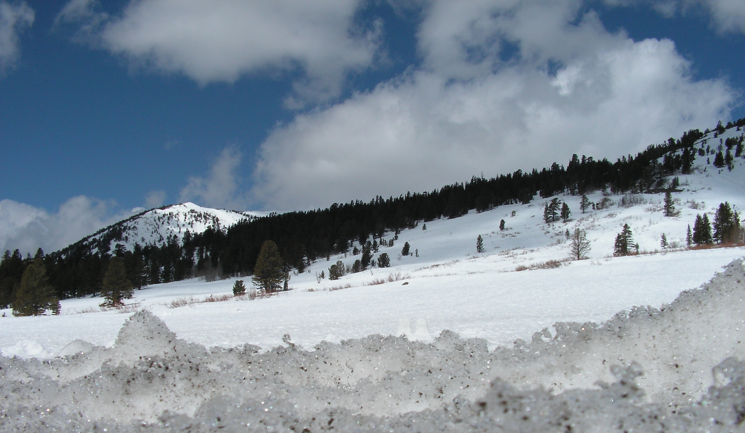 Snowy hillside in Tahoe National Forest, California, right off the highway. Still lots of snow in April.